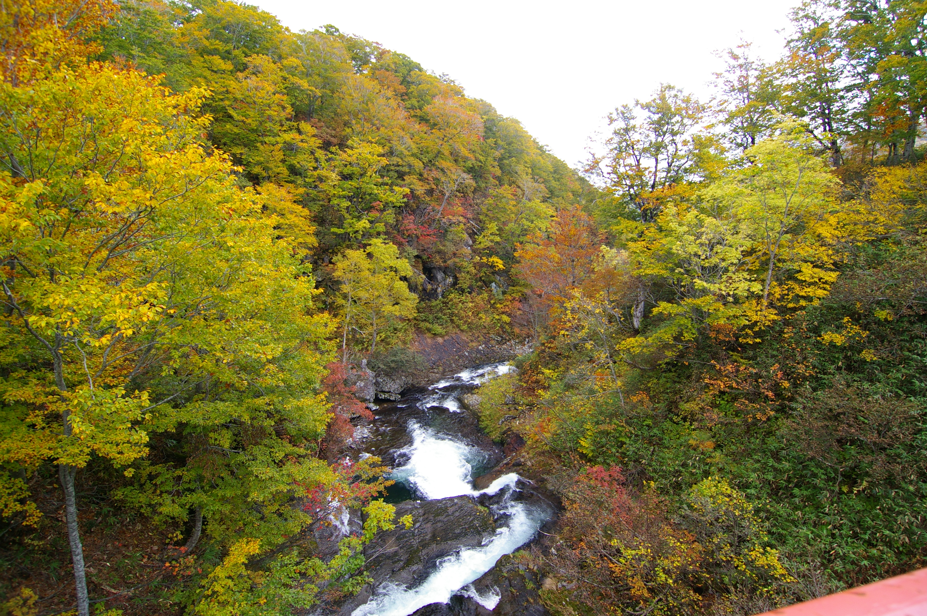 Garou highlands, Shimamaki, Hokkaido. Here is a part of Kariba-Motta Prefectural Natural Park.